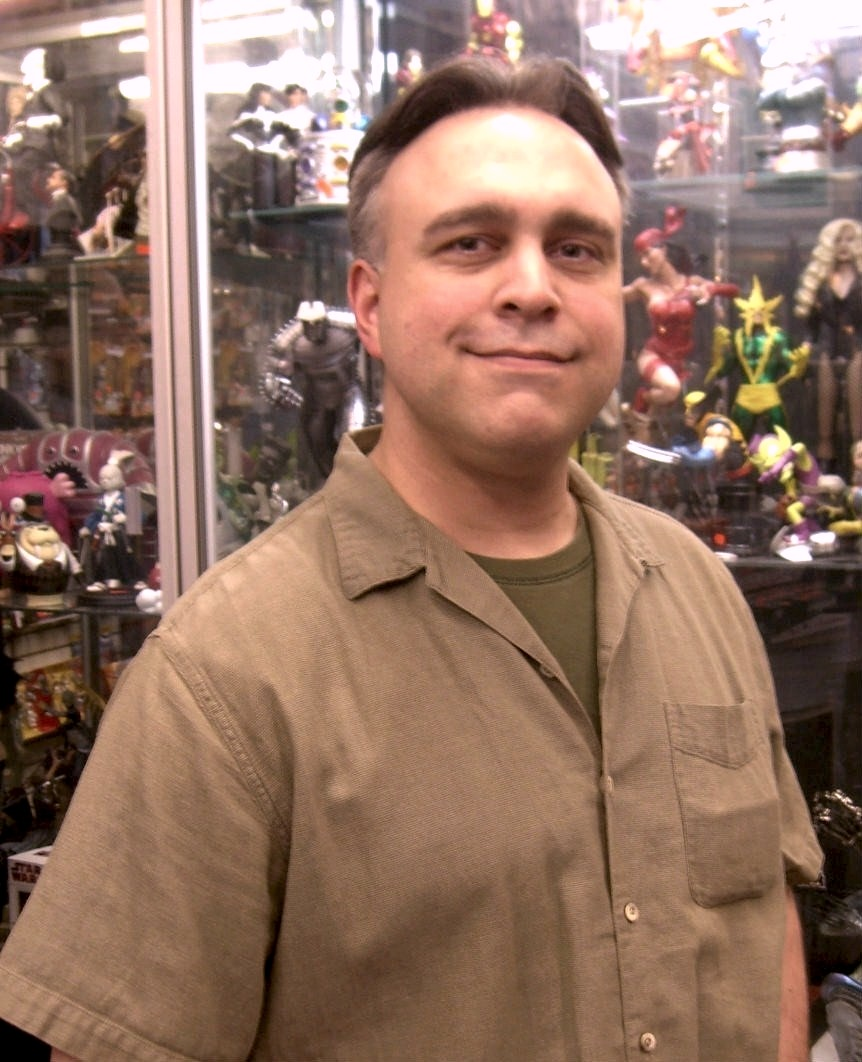 Star Trek novelist David Alan Mack at a book signing at Forbidden Planet in Manhattan.